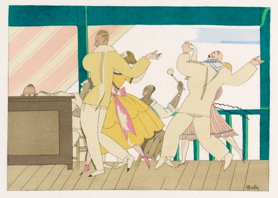 cropped version